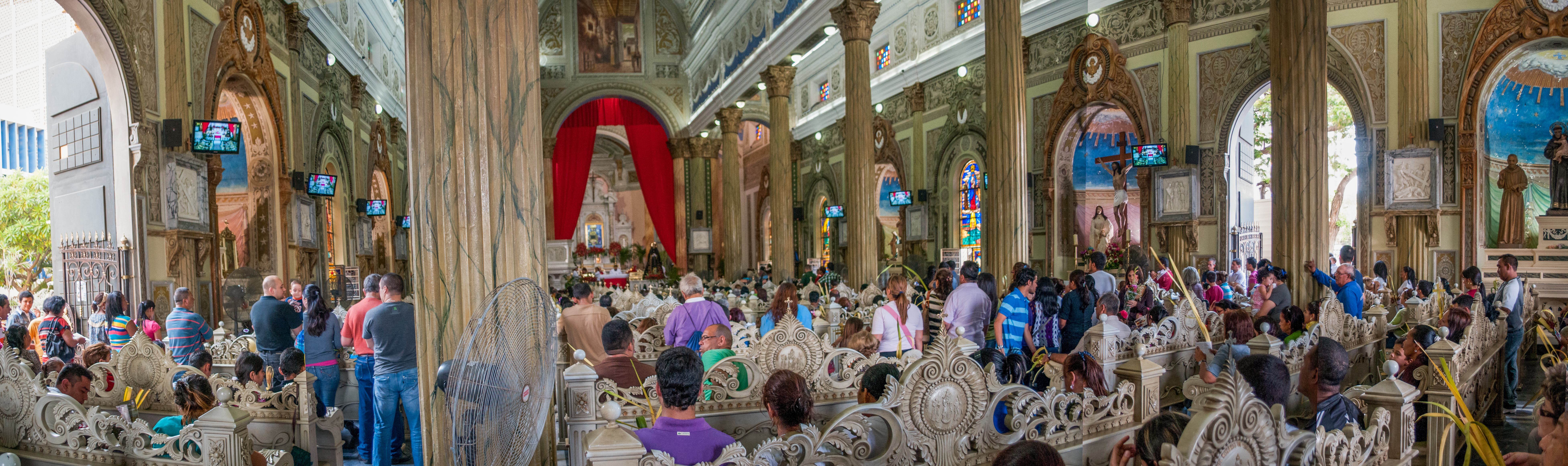 Basilica of the Chinita in a Palm Sunday